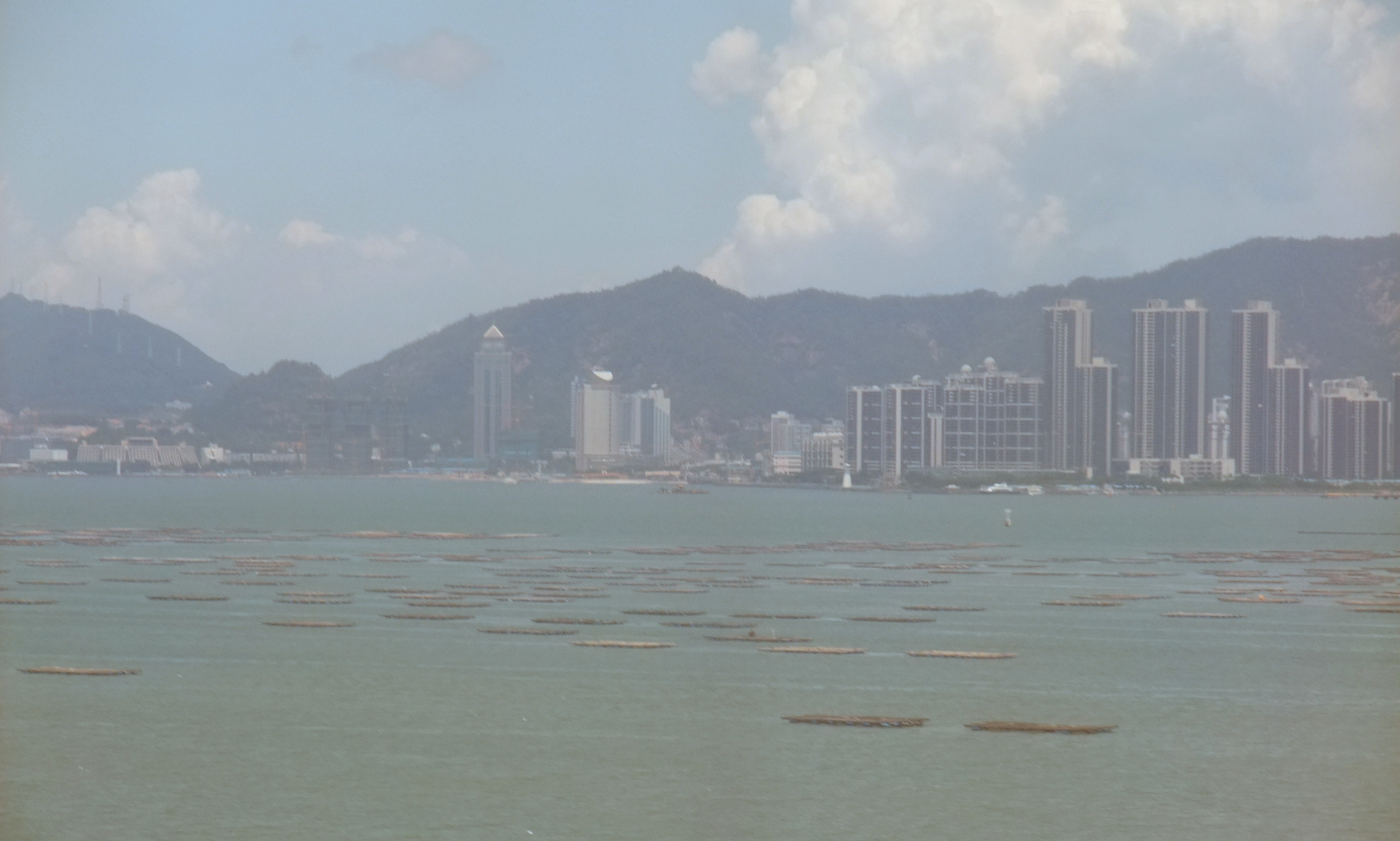 View across ShenzhenBay to Nanshan.jpg